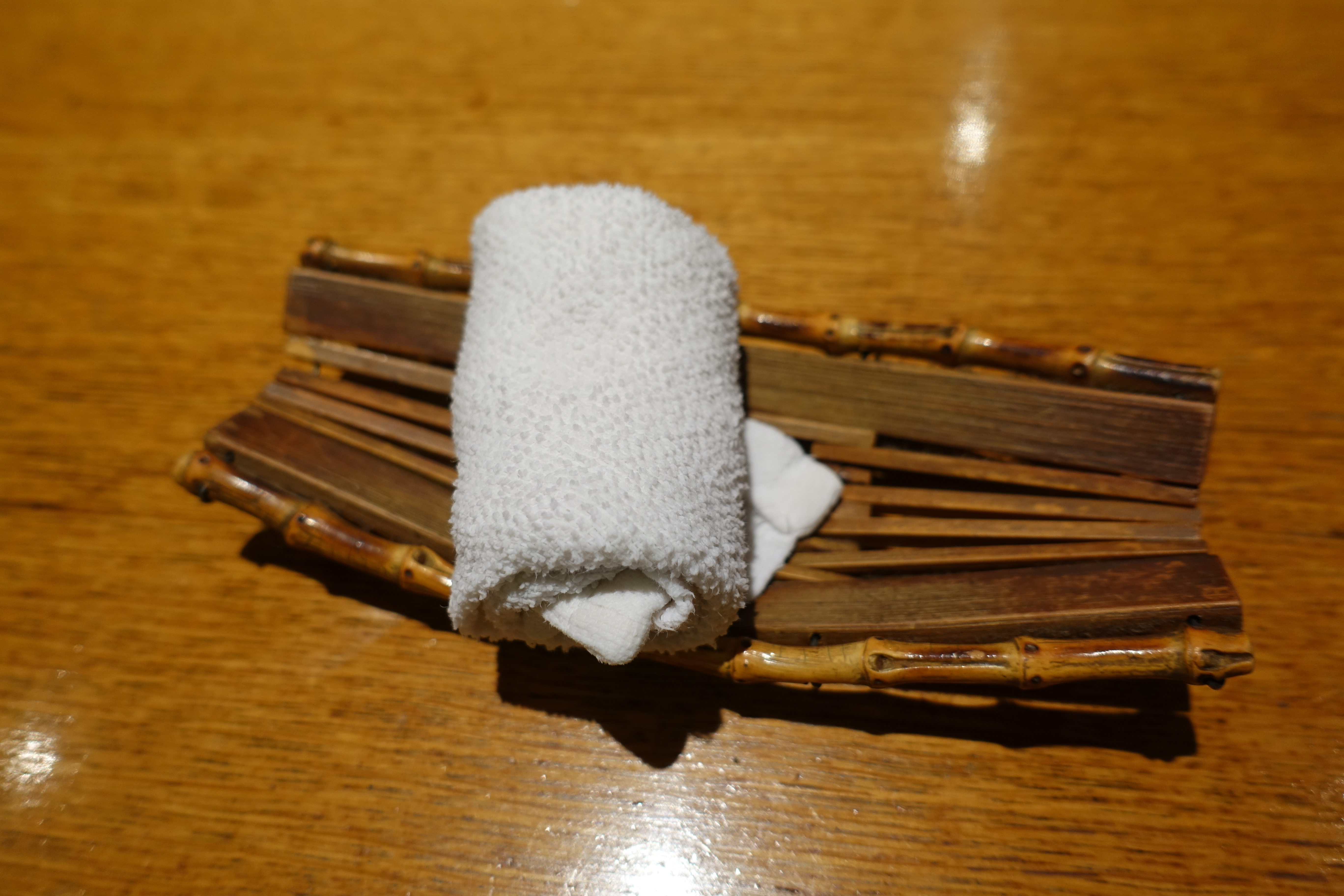 Oshibori @ Toritcho @ Montparnasse @ Paris